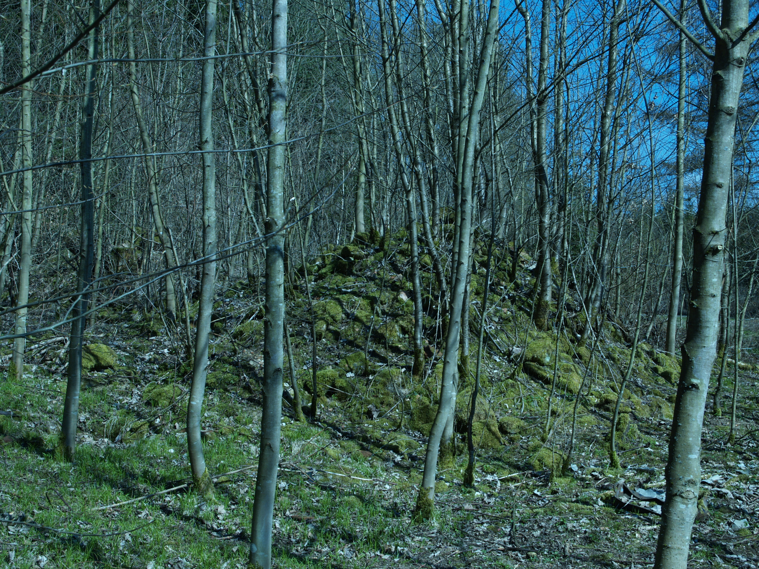 Bauschutthügel an der Wüstung Dexenhof